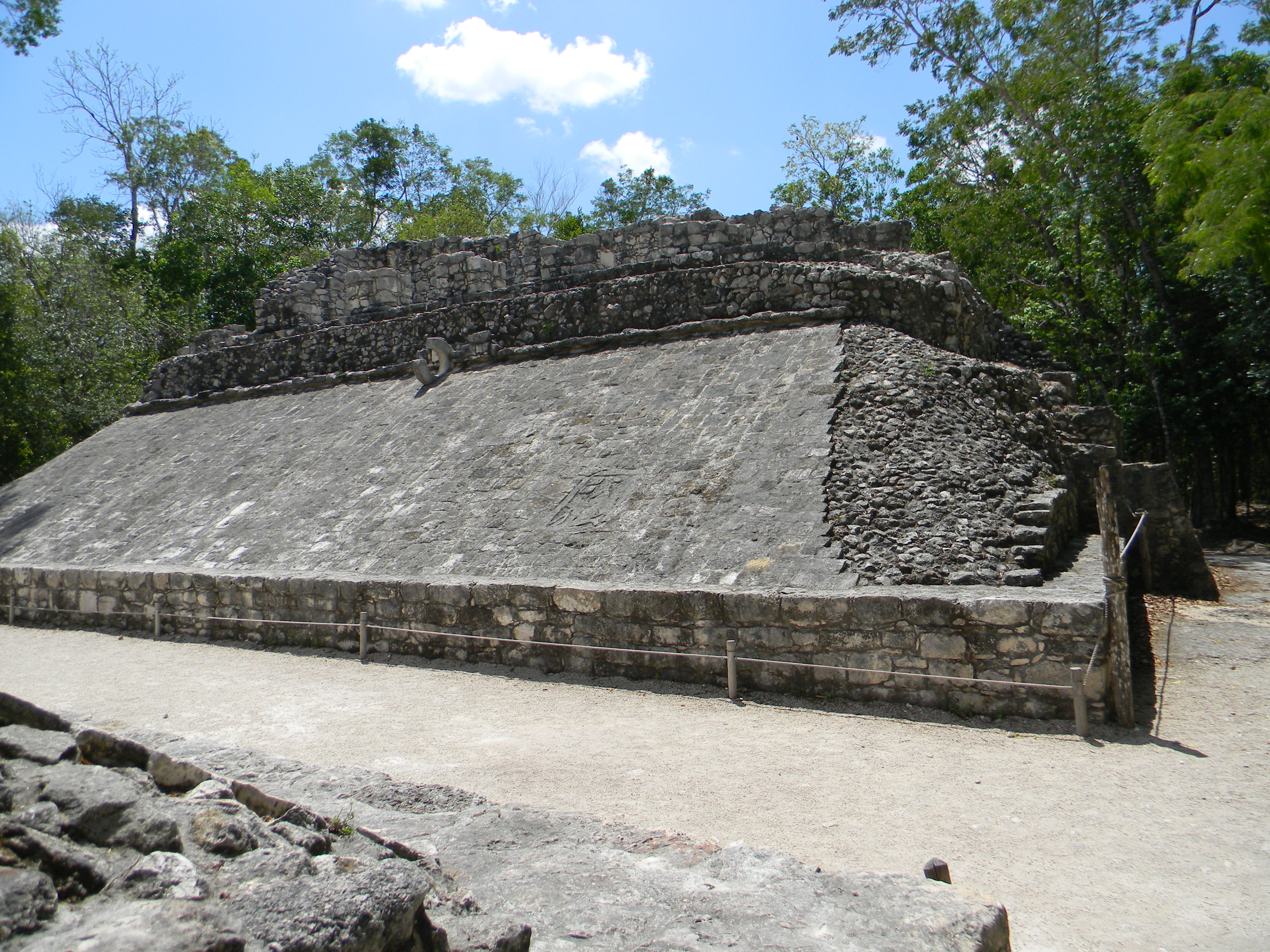 Cobá - Ball court, right side of stadion